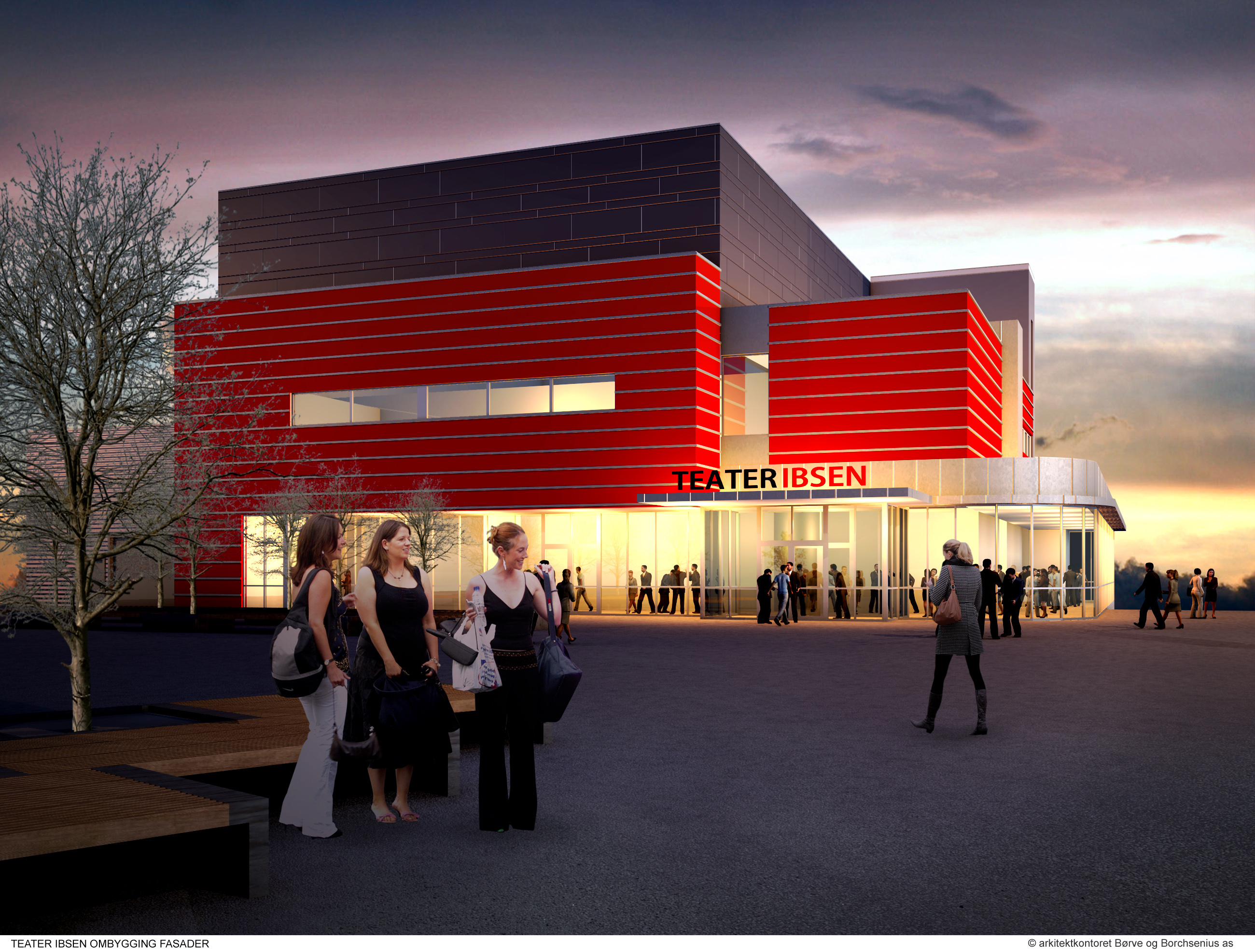 A mockup of Theater Ibsen's new buildingNorsk bokmål: En modell av Teater Ibsens nye bygning